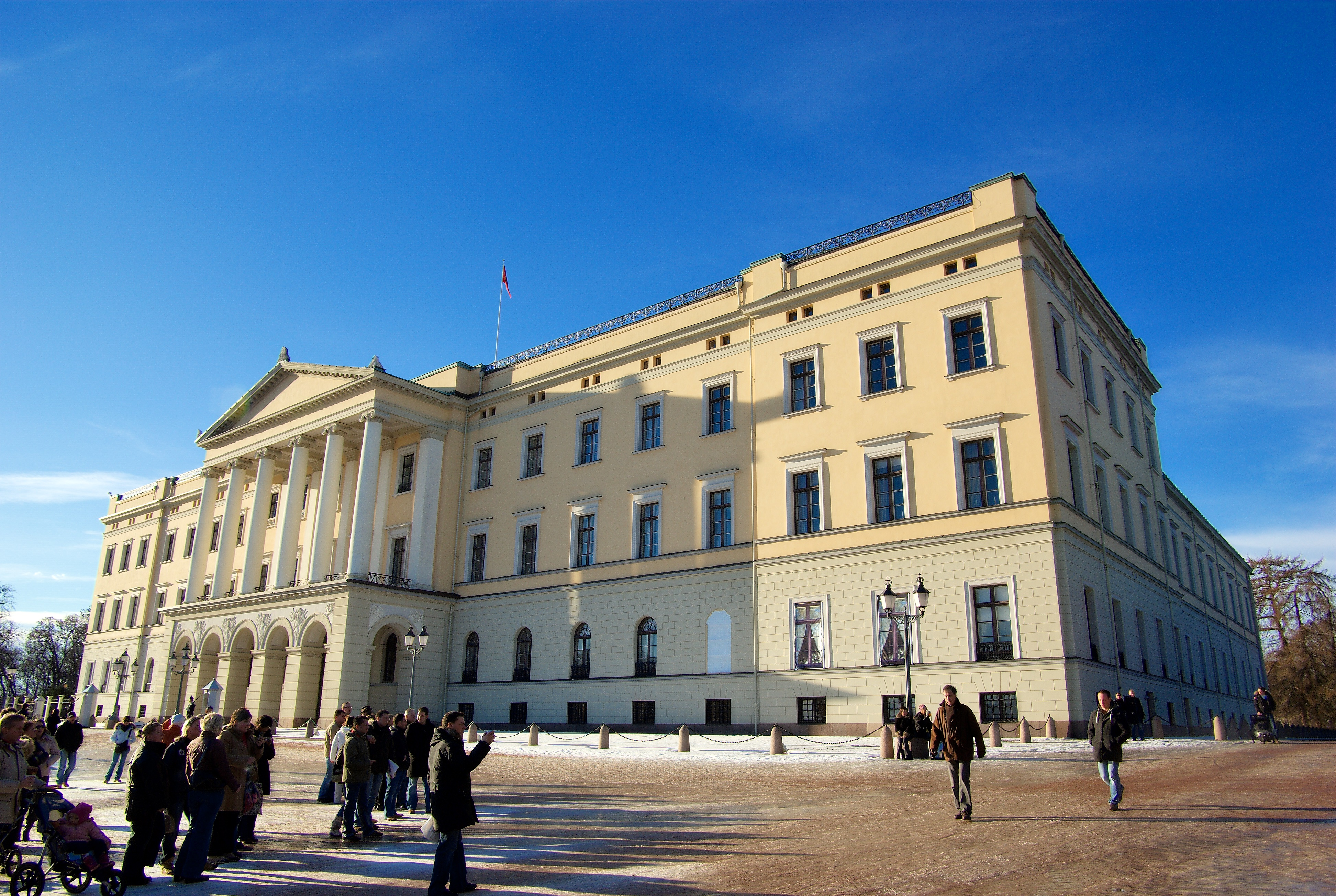 King's castle, Oslo, Norway